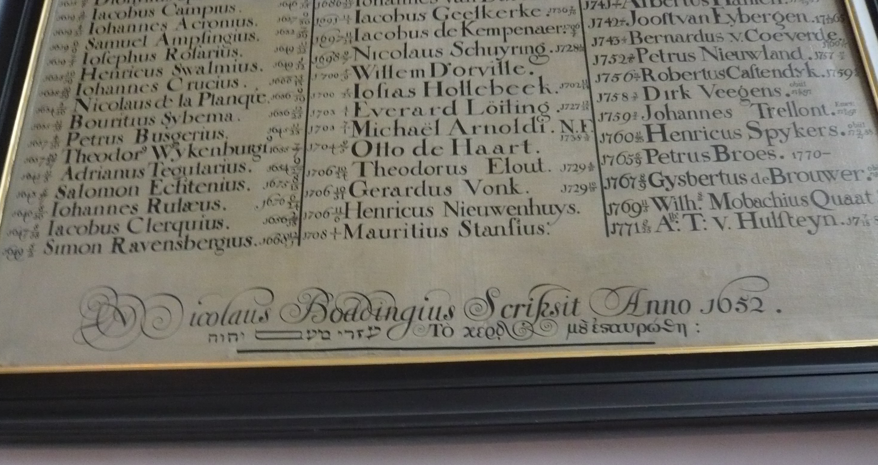 Nicolaes Bodding van Laer, calligrapher and brother of the artists Pieter van Laer and Roeland van Laer, signed this commemorative plaque in the St Bavokerk, Haarlem, in 1652